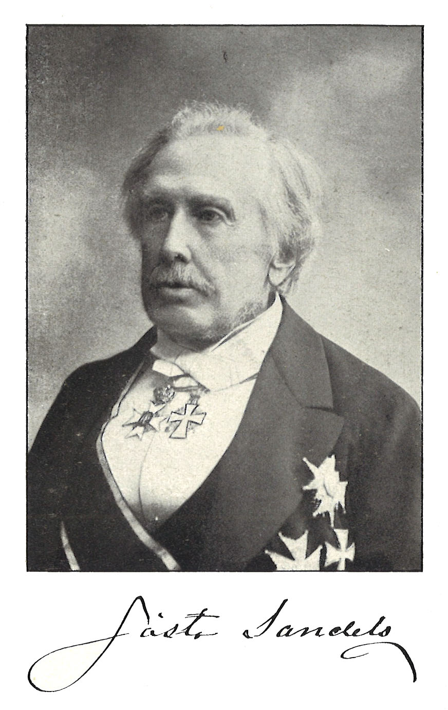 Gösta Sandels (1815-1914), Swedish count and officer.